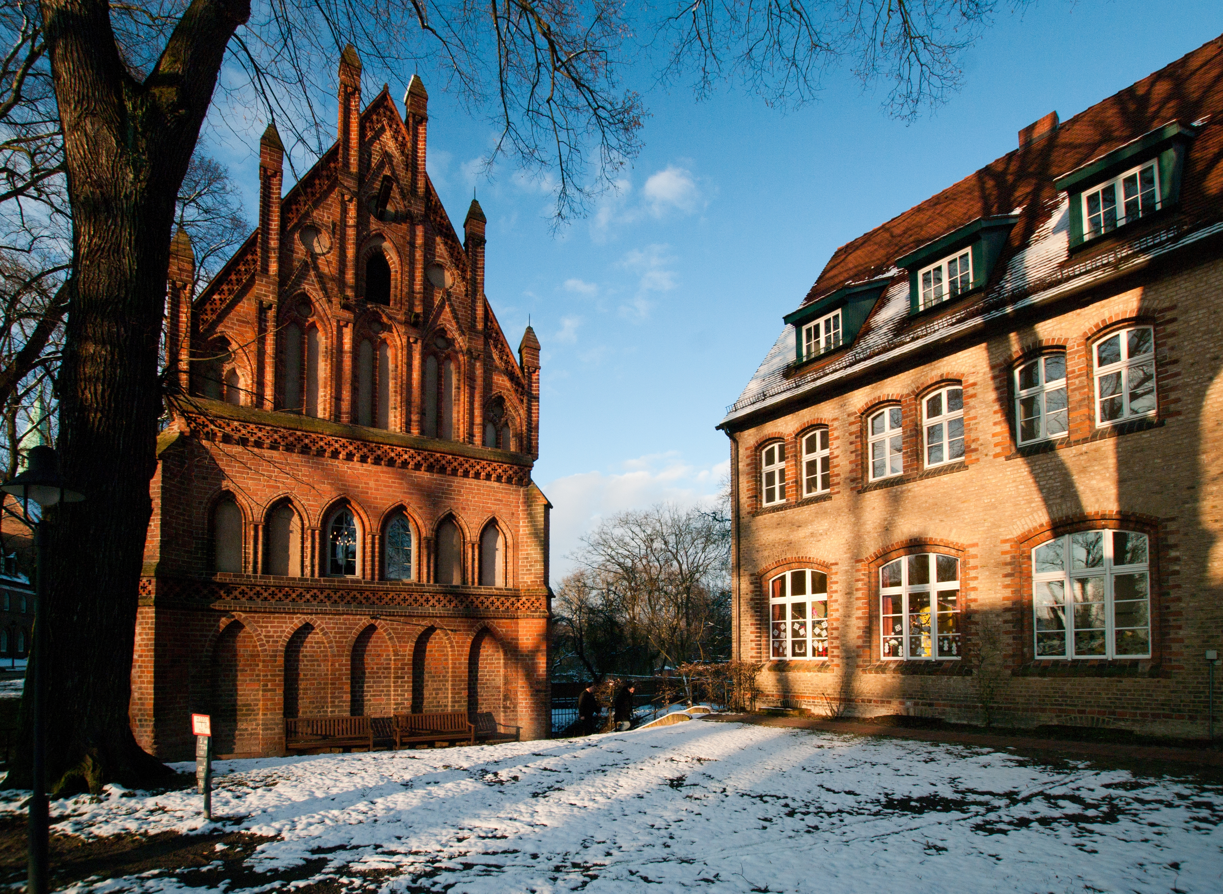 Kloster Lehnin in Winter